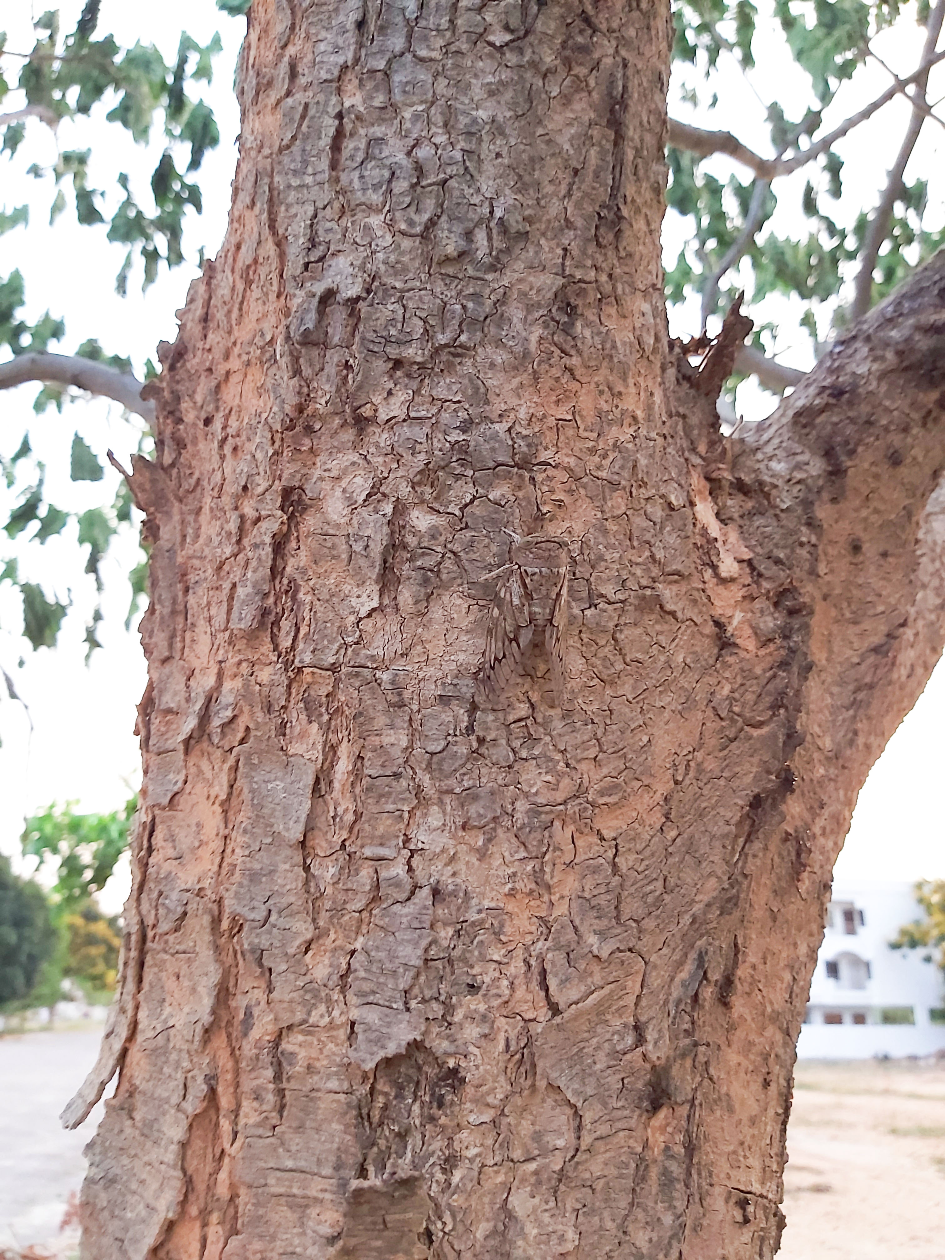 This cicada was found in the bark of a raintree in Kanakashree layout, Kannur, Bangalore